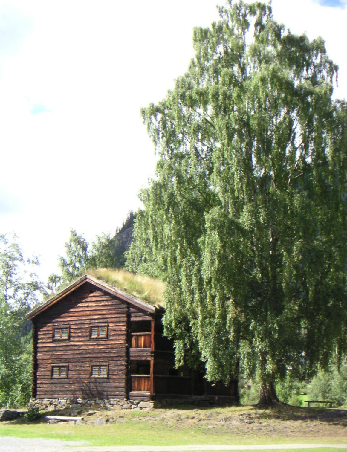 Main building from Hafton, a farm at leirskogen in Sør-Aurdal. The building is now at Valdres Folkemuseum.